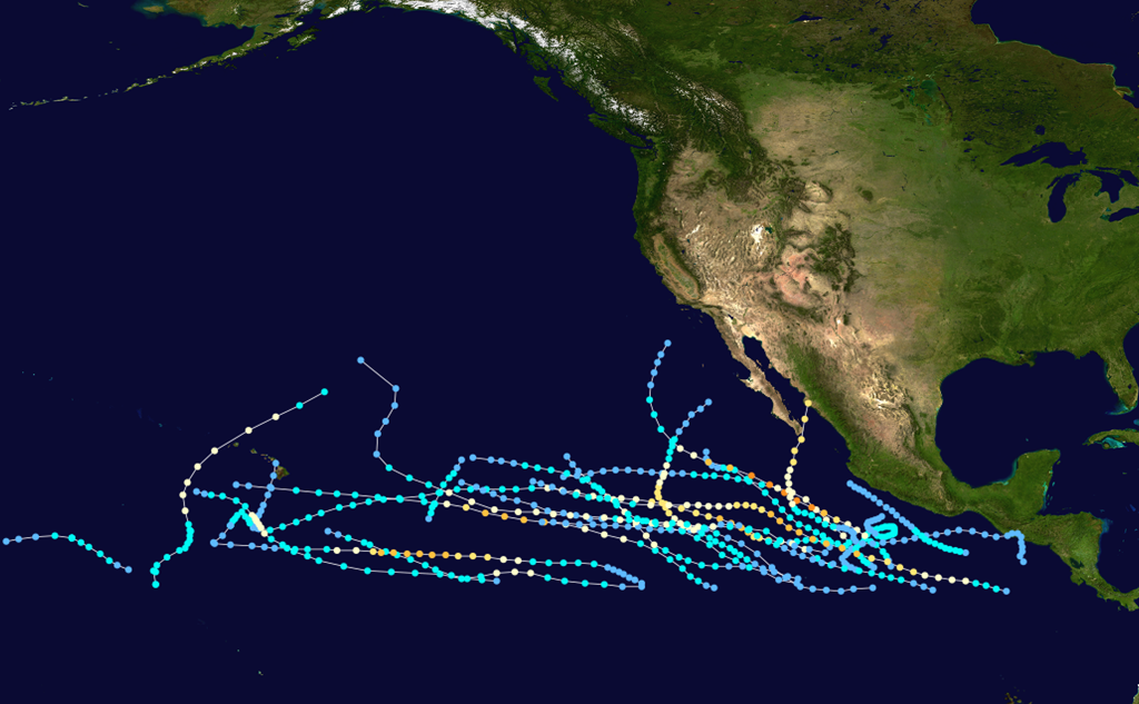 This map shows the tracks of all tropical cyclones in the 1982 Pacific hurricane season. The points show the location of each storm at 6-hour intervals. The colour represents the storm's maximum sustained wind speeds as classified in the Saffir-Simpson Hurricane Scale (see below), and the shape of the data points represent the type of the storm. Saffir–Simpson scale Tropical depression≤38 mph≤62 km/h Category 3111–129 mph178–208 km/h Tropical storm39–73 mph63–118 km/h Category 4130–156 mph209–251 km/h Category 174–95 mph119–153 km/h Category 5≥157 mph≥252 km/h Category 296–110 mph154–177 km/h Unknown Storm type Tropical cyclone Subtropical cyclone Extratropical cyclone / Remnant low / Tropical disturbance / Monsoon depression